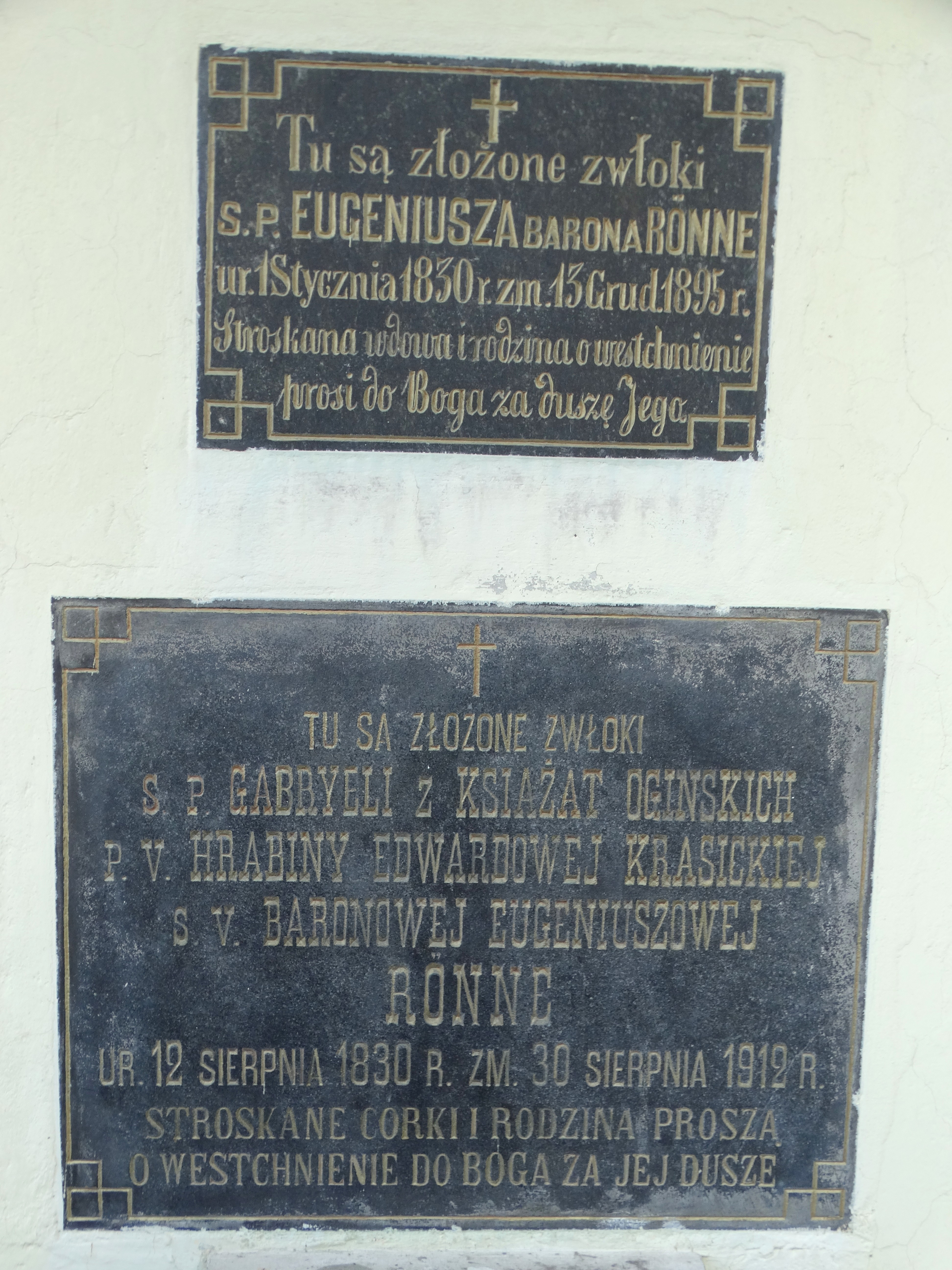 Memorial boards, churchyard chapel, Gargždai, Lithuania